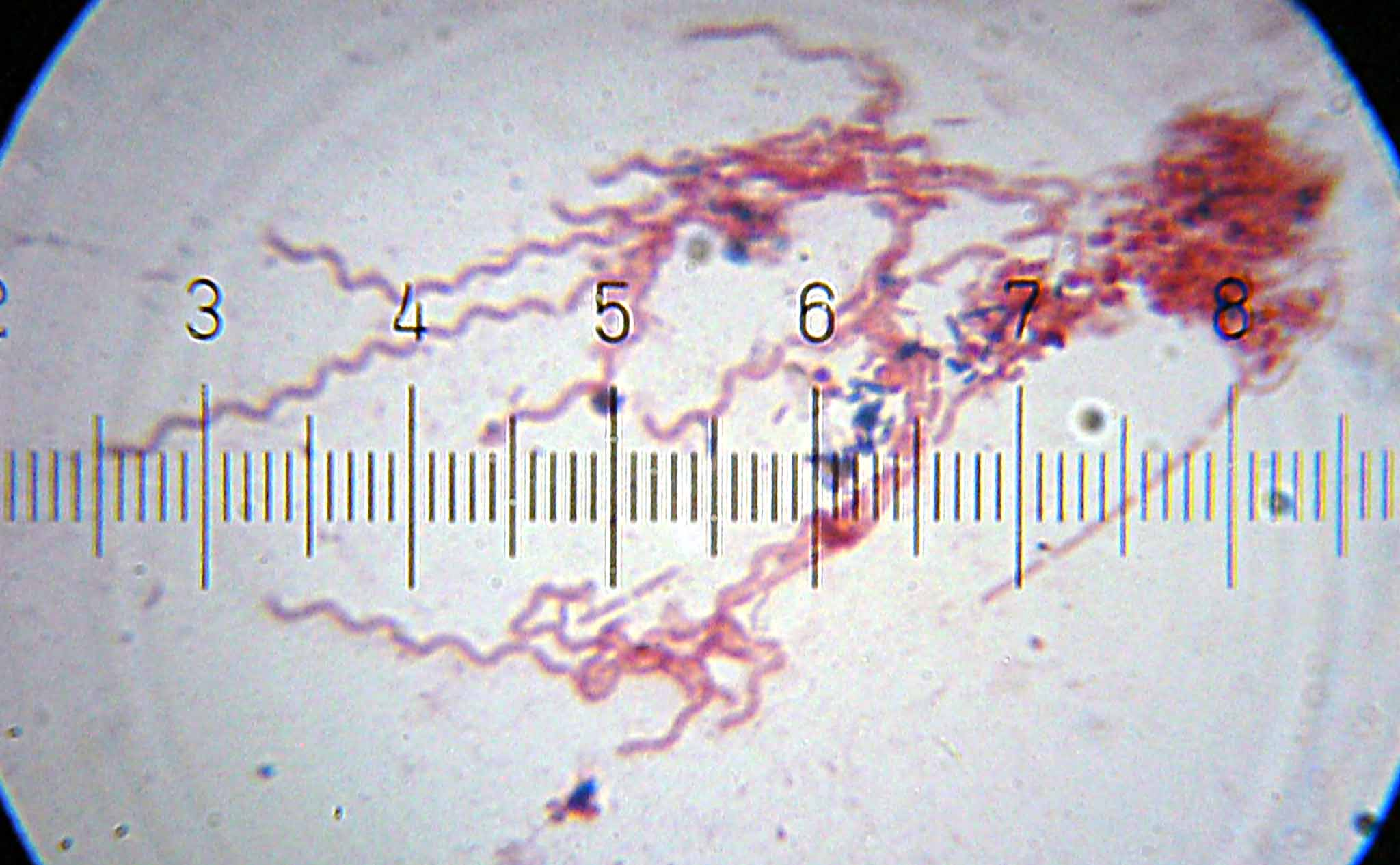 Some spirochetes, from water standing in a gutter near my home. 100× objective, 15× eyepiece; numbered ticks are 11 µm apart. Each pixel in the full-sized version of this image represents a 0.038 µm square. Gram-stained.